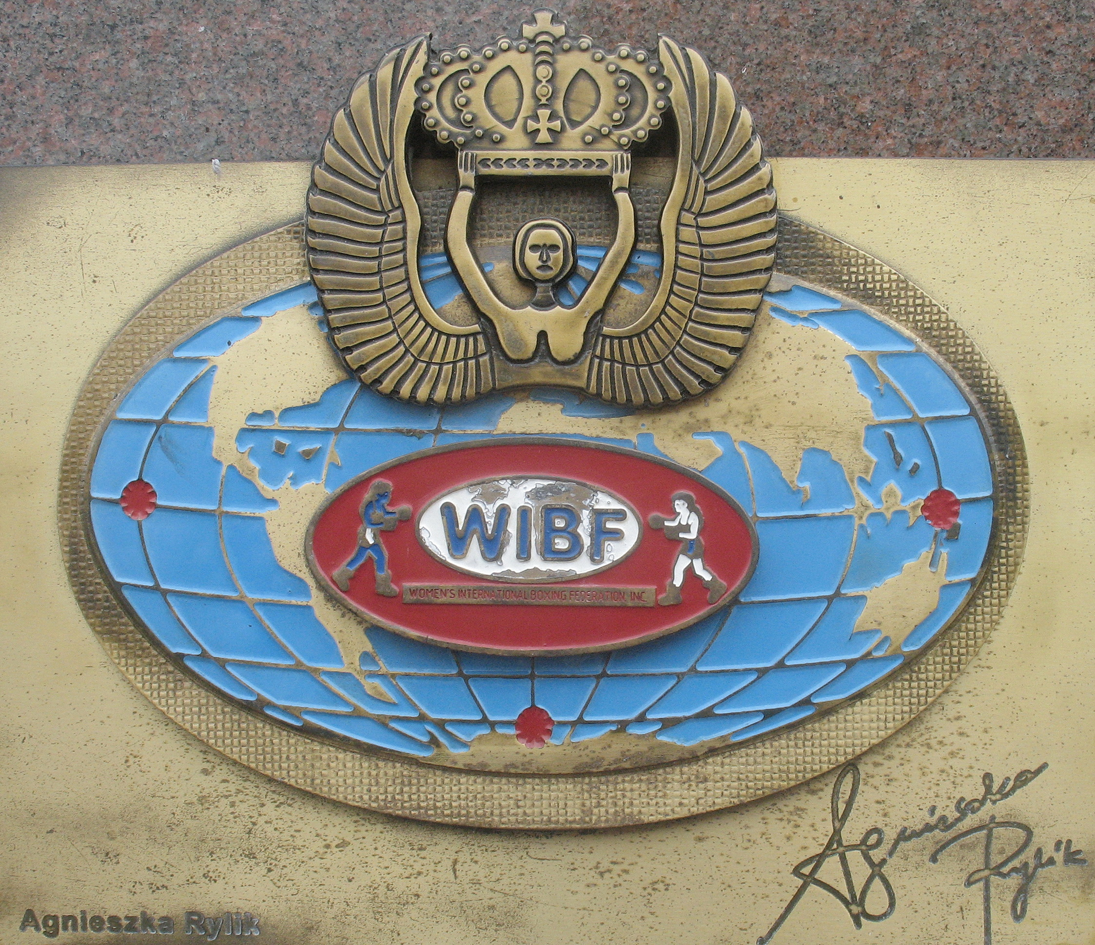 Agnieszka Rylik belt & autograph in Avenue of Sport Stars Dziwnów